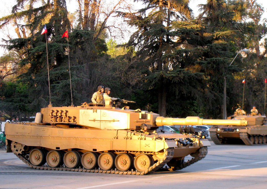 Leopard 2A4CHL